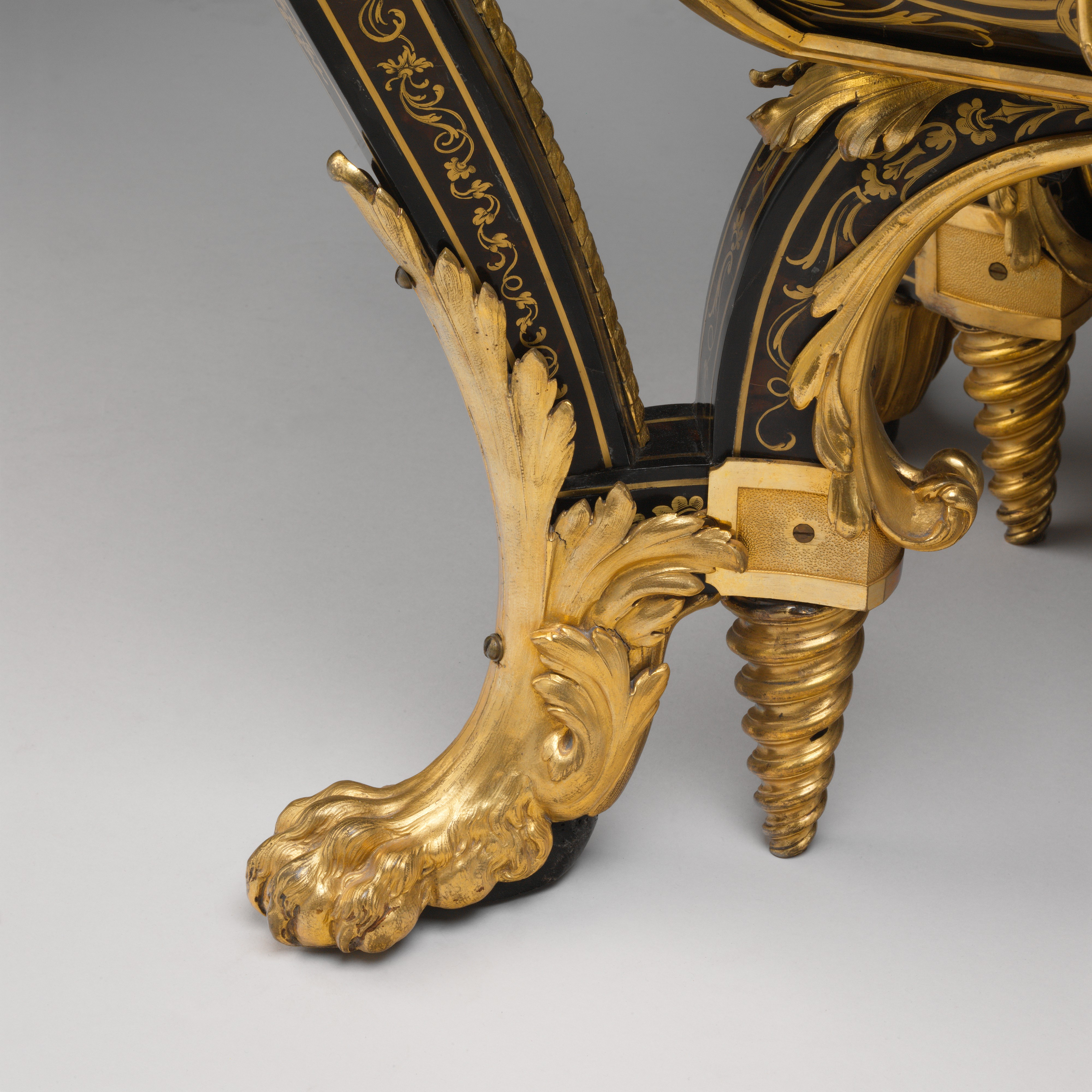 French; Commode; Woodwork-Furniture